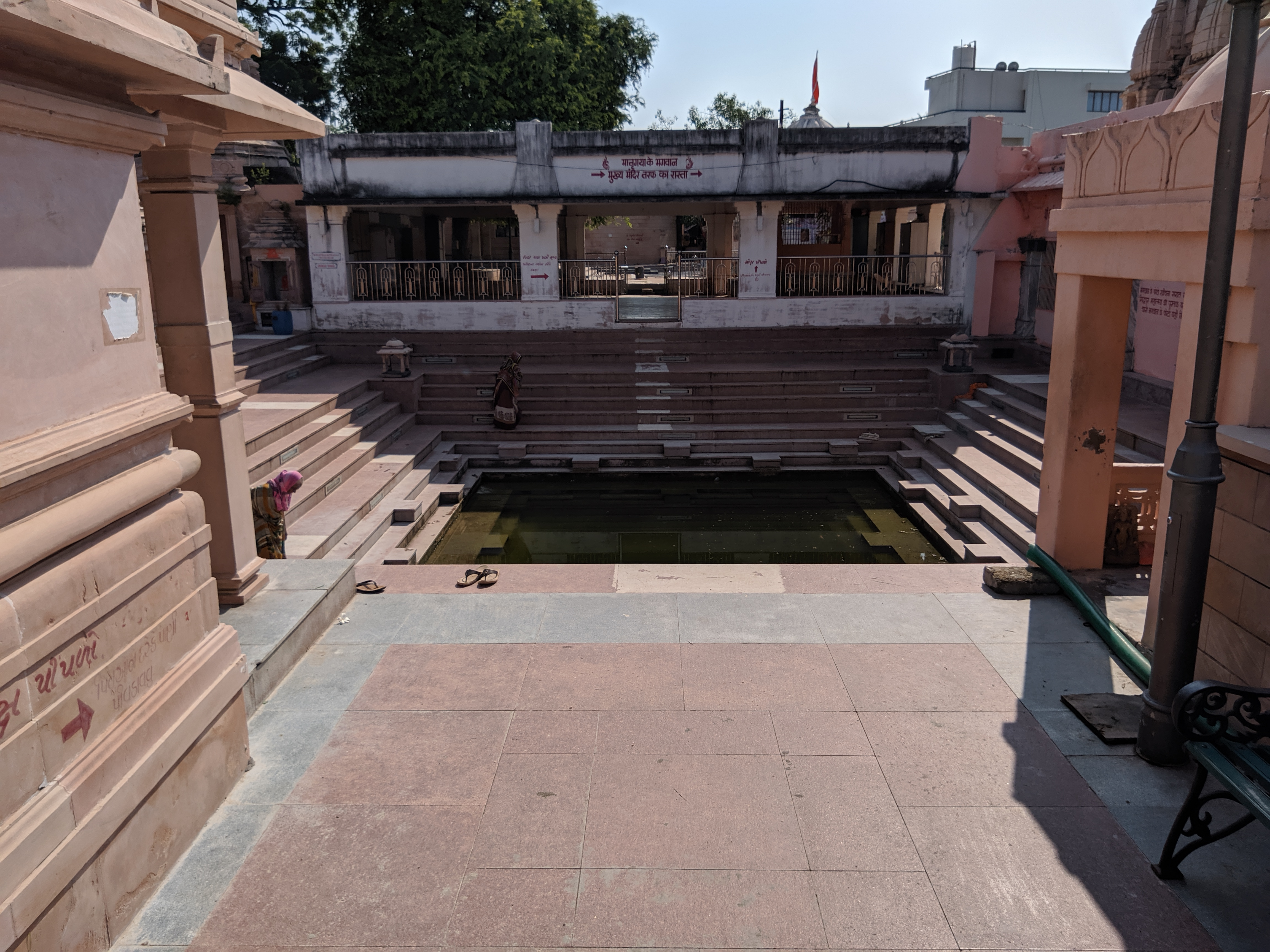 Bindu Sarovar in Siddhpur town in Gujarat state of India. A holy Hindu lake.